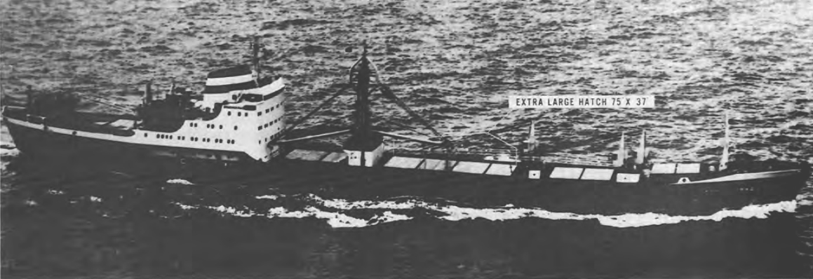 A Navy patrol plane photgraphed the Soviet freighter Krasnograd as she steamed for Cuba in September 1962, probably carrying SS-4 missiles. U.S. and allied aircraft and ships closely monitored the passage of Soviet merchantmen through the Atlantic and Caribbean.